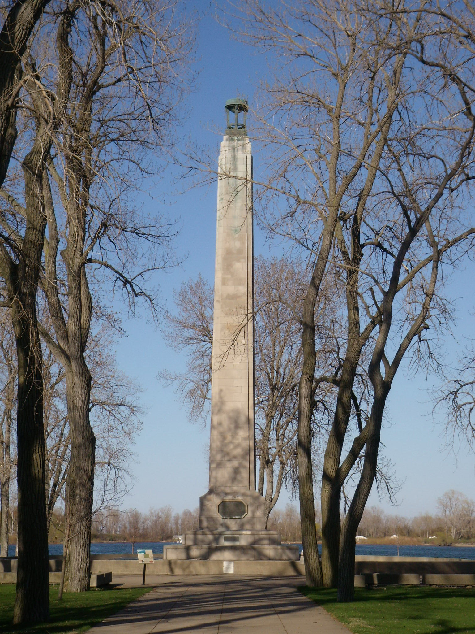 Photograph of monument to Oliver Hazard Perry at Presque Isle State Park taken by self on 4 May 2007